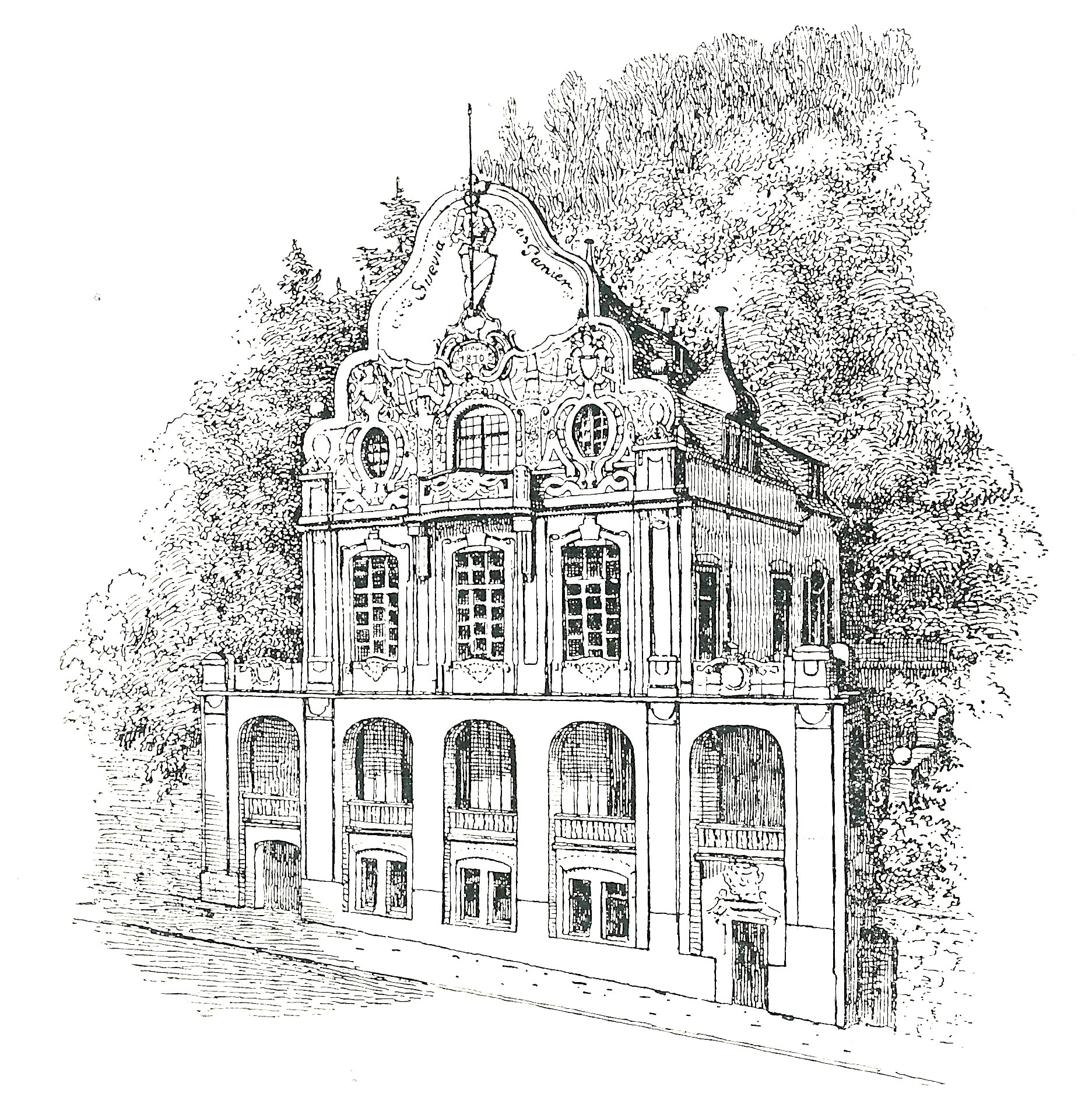 House of student fraternity Corps Suevia Heidelberg (Germany), Klingenteich 4